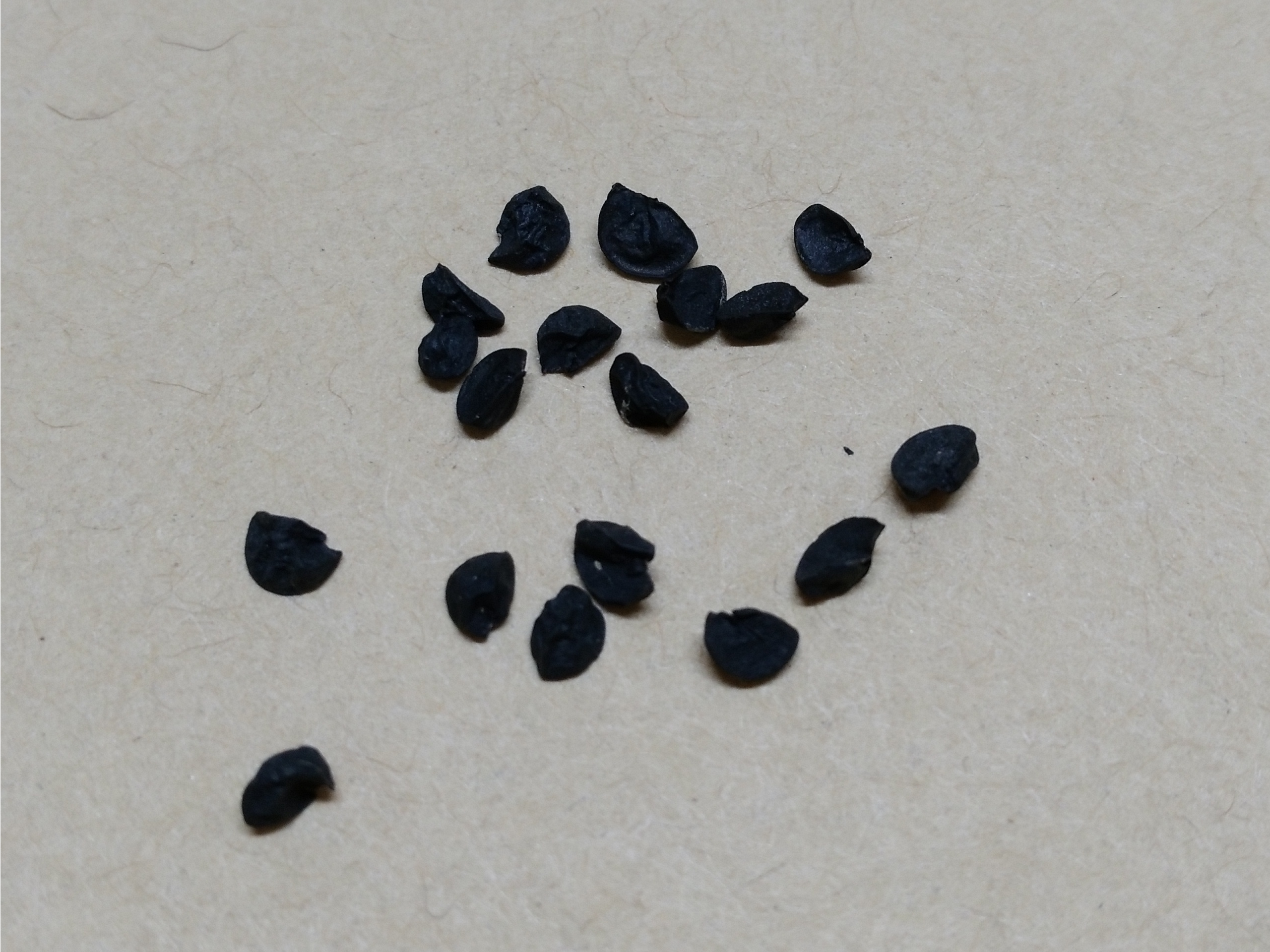 Shallot (Allium cepa) seeds